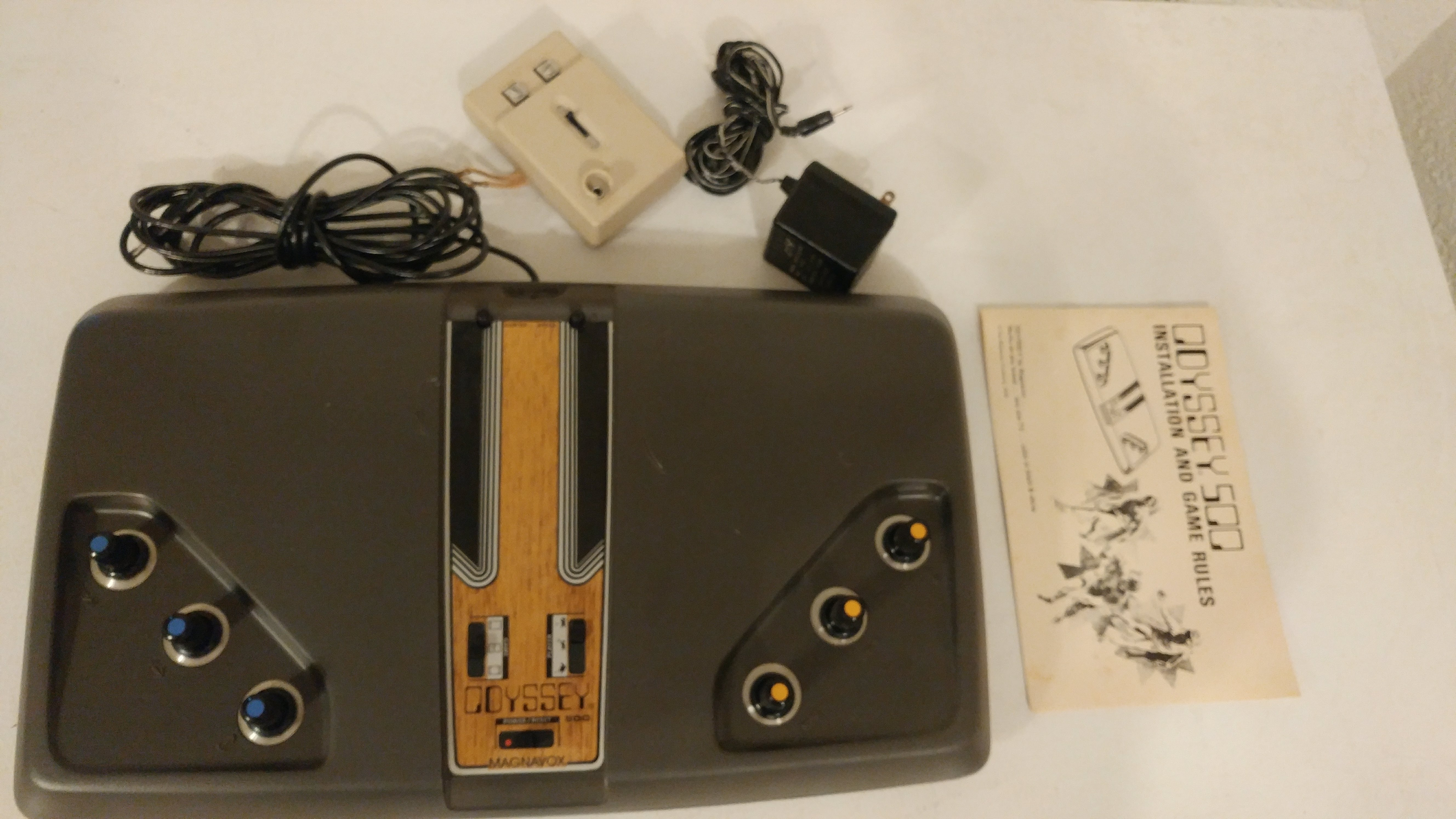 Odyssey500